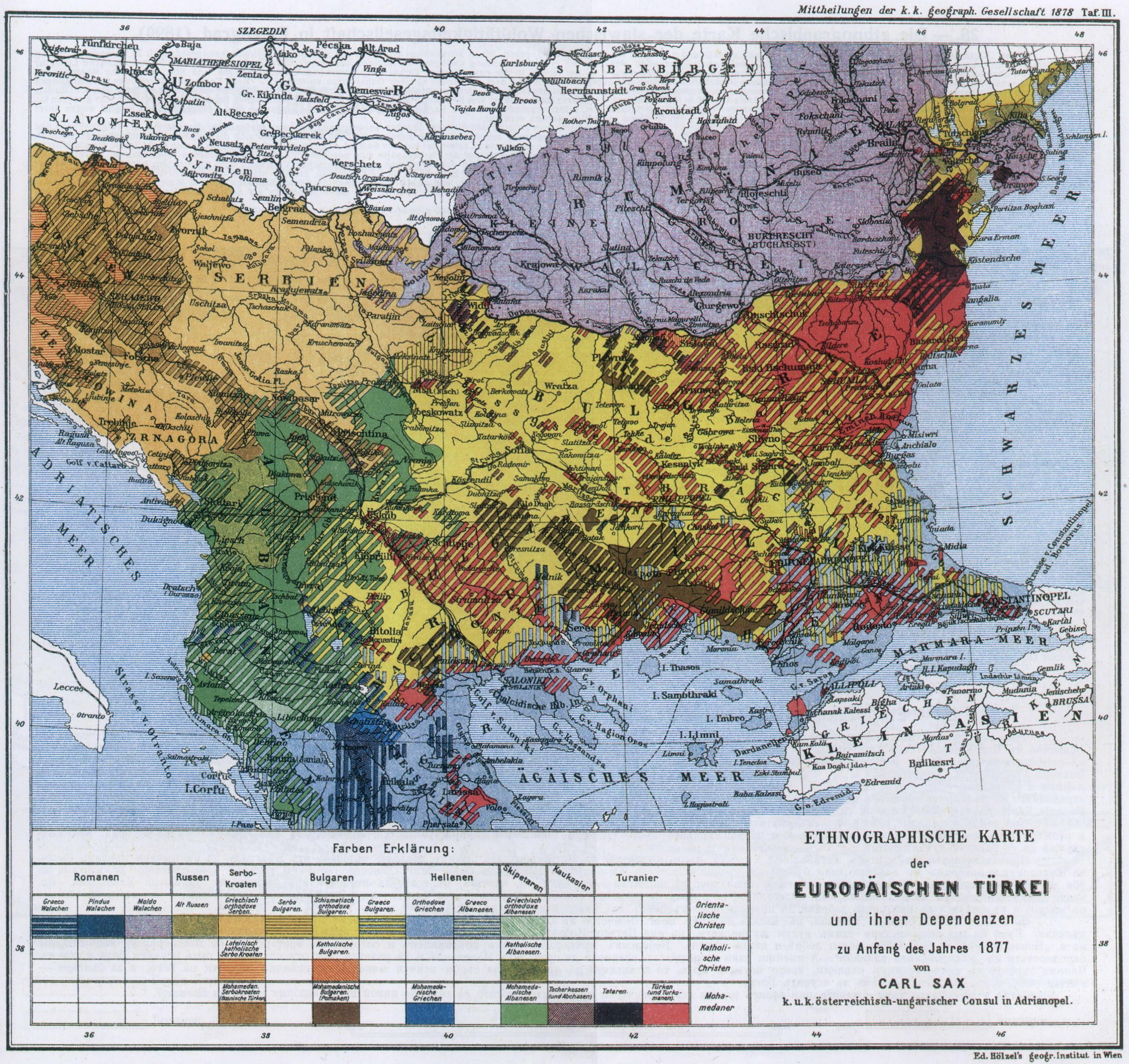 Ethnographic map of European Turkey from 1877. Author Carl Sax, Austro-Hungarian diplomat in Adrianople.